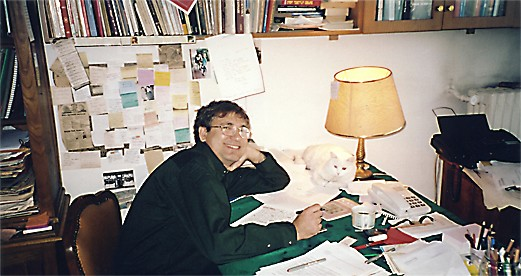 Orhan Pamuk, turkish novelist. The photo is declared copyright-free on Pamuk's official website, as seen at the above link.